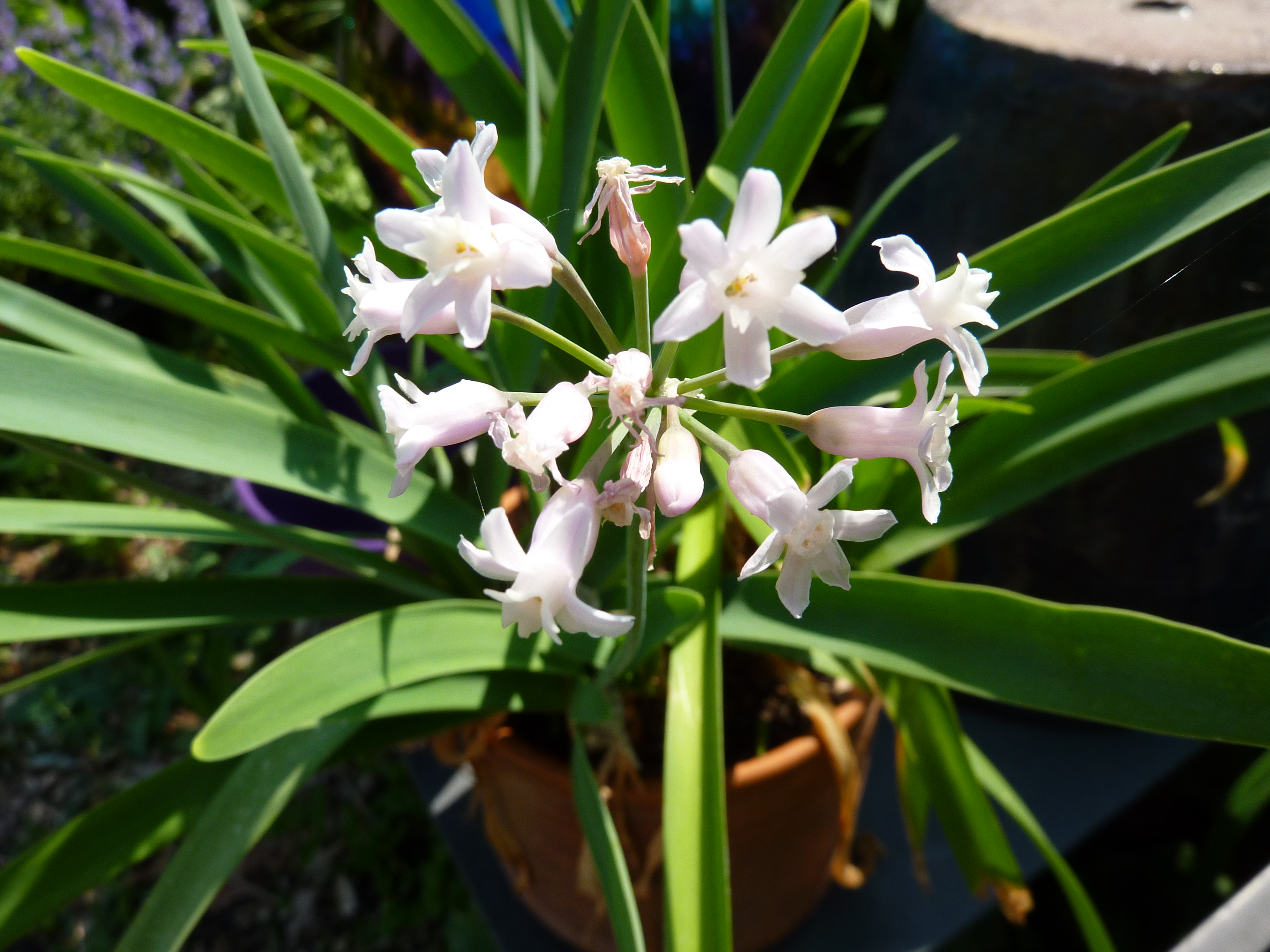 Tulbaghia fragrans flowering in the garden of botanist Robert R. Kowal in Madison, Wisconsin